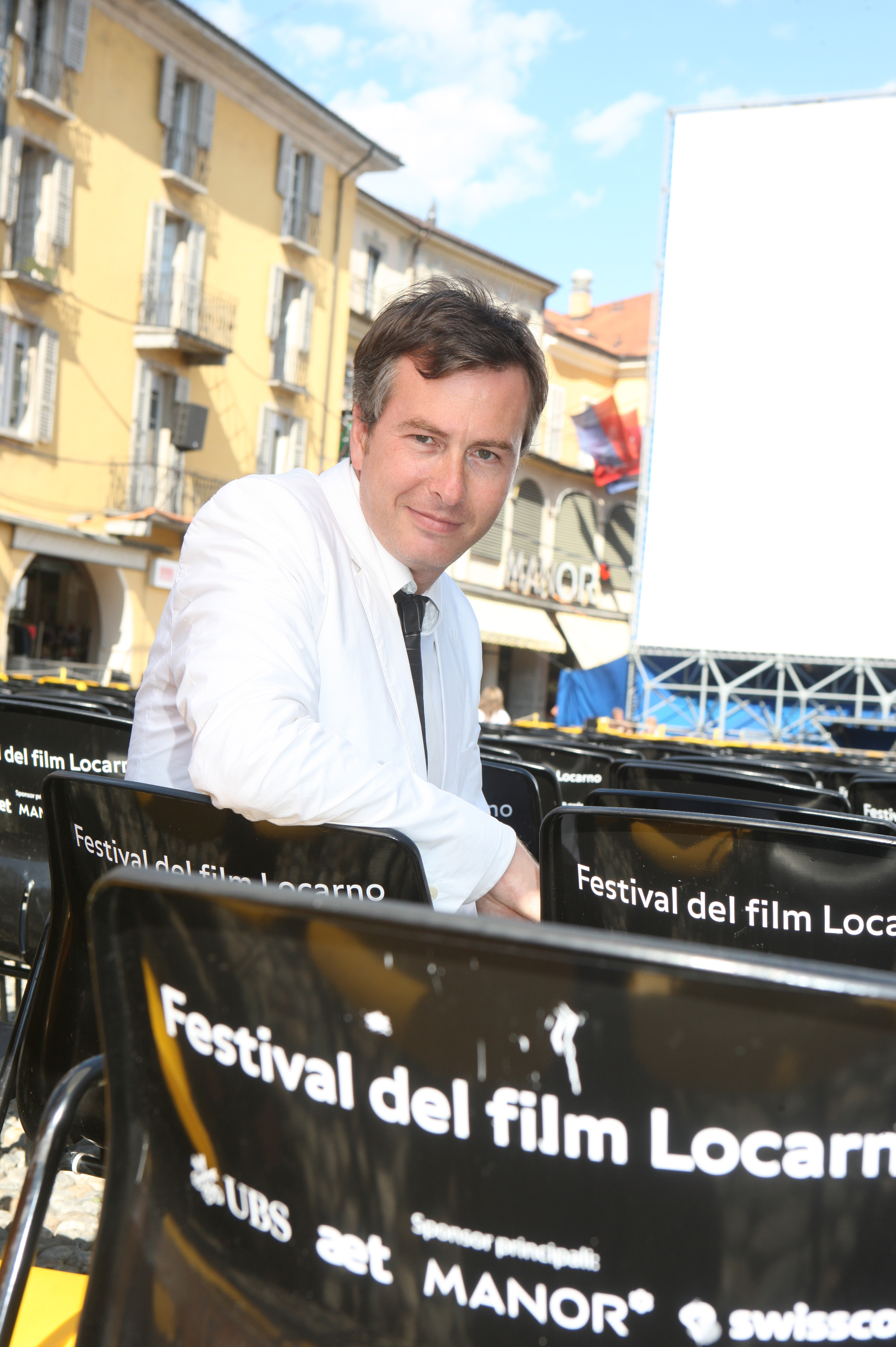 Olivier Père, Artistic Director of Festival del film Locarno